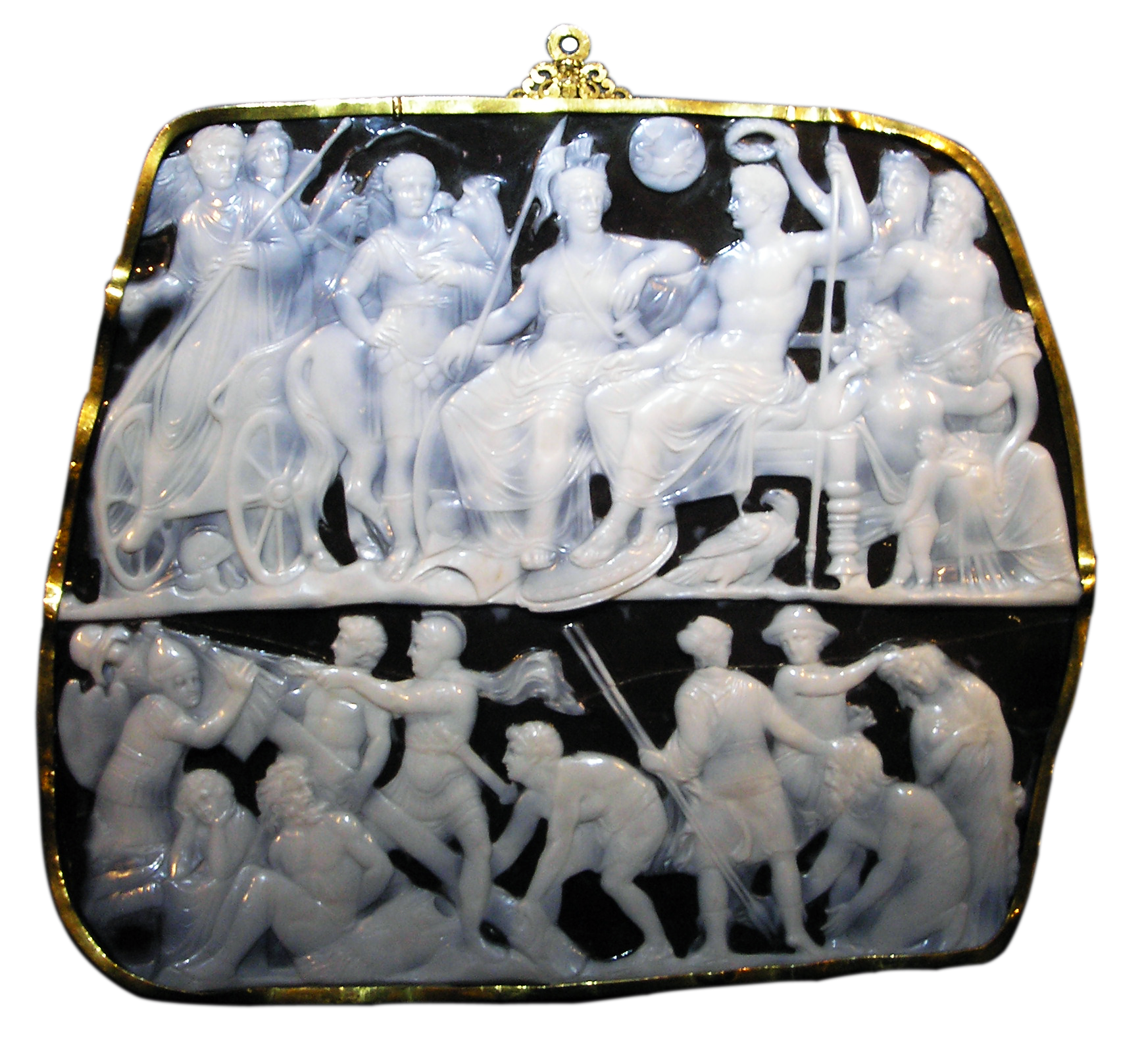 Gemma Augustea, a depiction of Emperor Augustus surrounded by goddesses and allegories. Collection of Greek and Roman Antiquities in the Kunsthistorisches Museum, Vienna. Roman, 9-12 CE. Two-Layered onyx. Setting: gold frame, reverse side in ornamented open-work; German, 17th century.